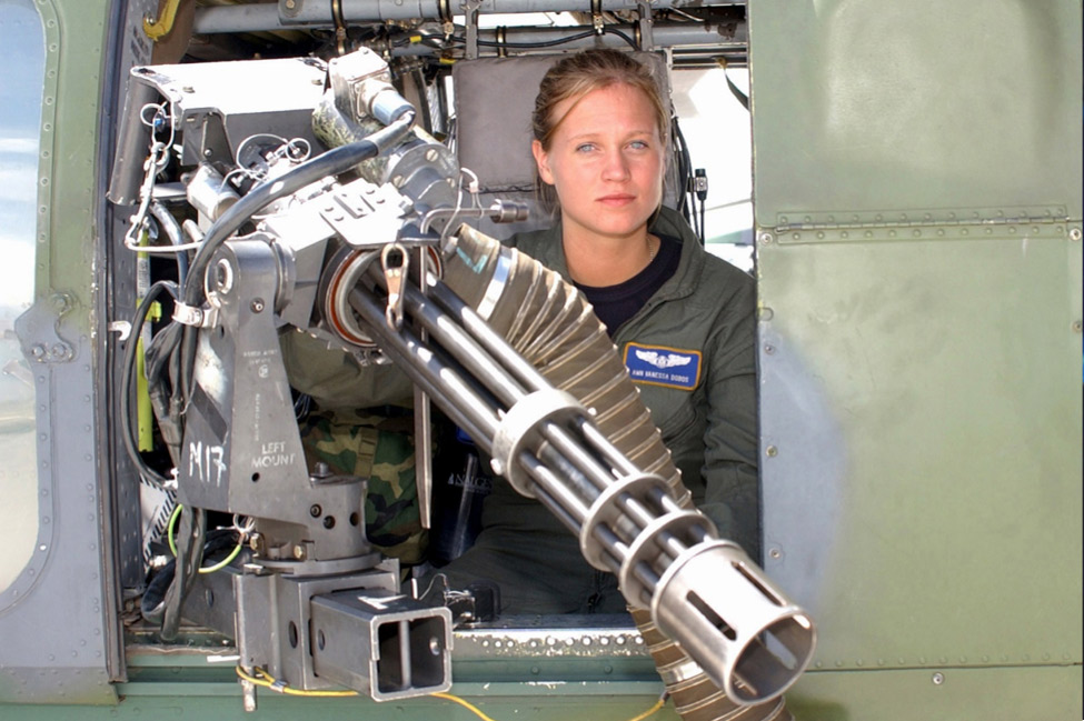 US Air Force (USAF) AIRMAN (AMN) Vanessa Dobos, assigned to the 58th Training Squadron (TRS), Kirtland Air Force Base (AFB) New Mexico (MN), look out the crew door of a USAF HH-60G Pave Hawk helicopter, equipped with a 7.62mm M134 Minigun machine gun. AMN Dobos will be the first female aerial gunner in the USAF when she graduates from the technical school in a few weeks. As gunner and member of a search and rescue crew, she will perform a combat duty that was formerly closed to women in the Air Force. Dobos said she follows the philosophy an instructor told her, "A gunner's a gunner, don't think you"re special because you're a female." Her first duty station will be Nellis AFB, Nevada (NV). In 2002, Air Force Airman Vanessa Dobos became the first female aerial gunner, a combat duty that had previously been closed to women. Dobos went on to serve with distinction in Iraq and Afghanistan.